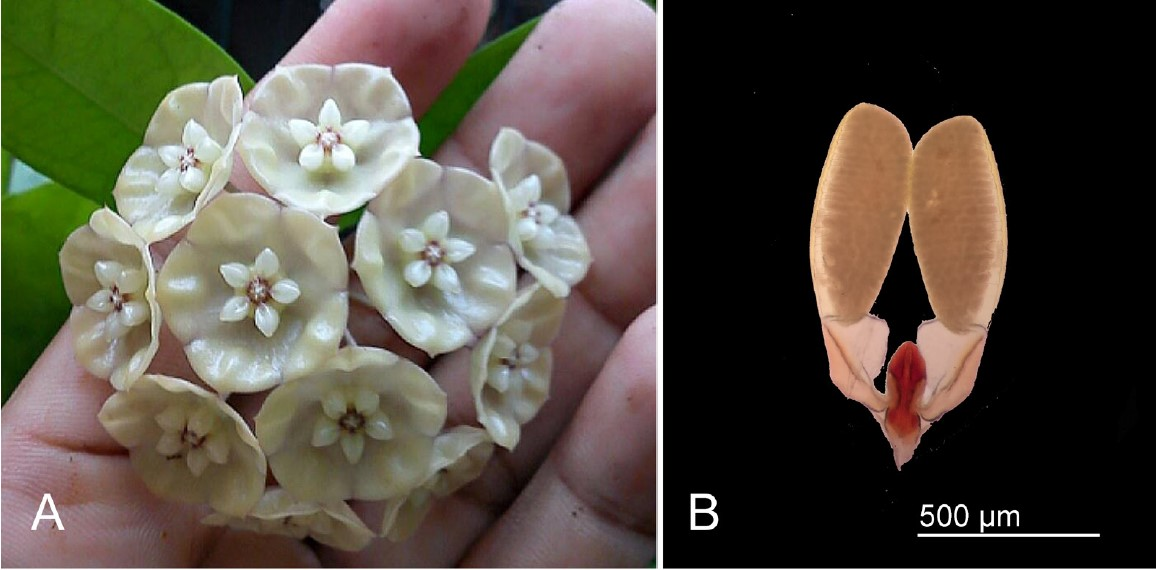 Hoya danumensis subsp amarii S.Rahayu & Rodda 2019, Asclepiadoideae, Apocynaceae, from Rahayu & Rodda (2019: Fig. 2 A B)